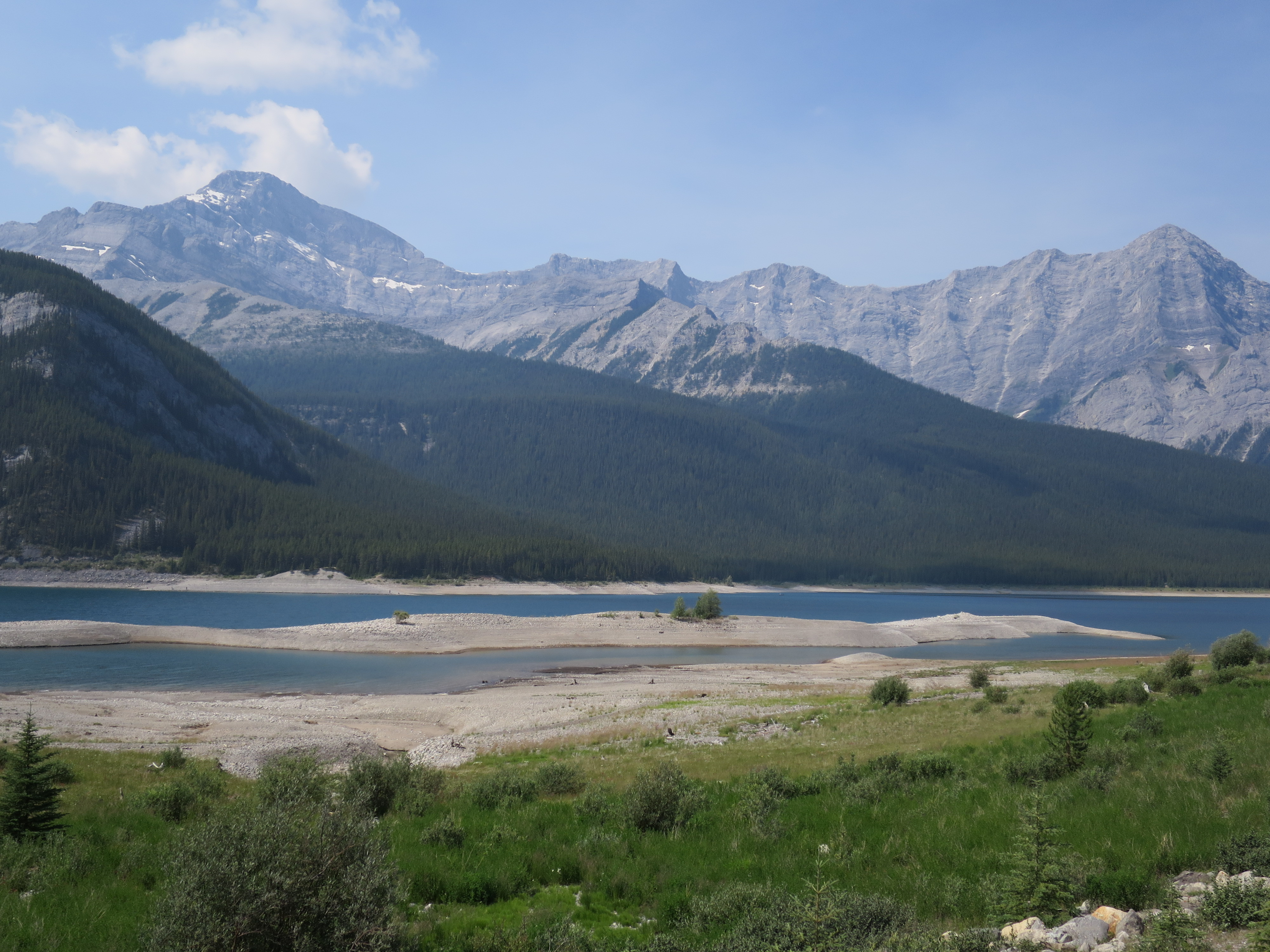 Old Goat Mountain (3109m, Goat Range) from the Smith-Dorrien Trail (Alberta Highway 742, Canada), Spray Valley Provincial Park, looking WSW across the Spray Lakes Reservoir.